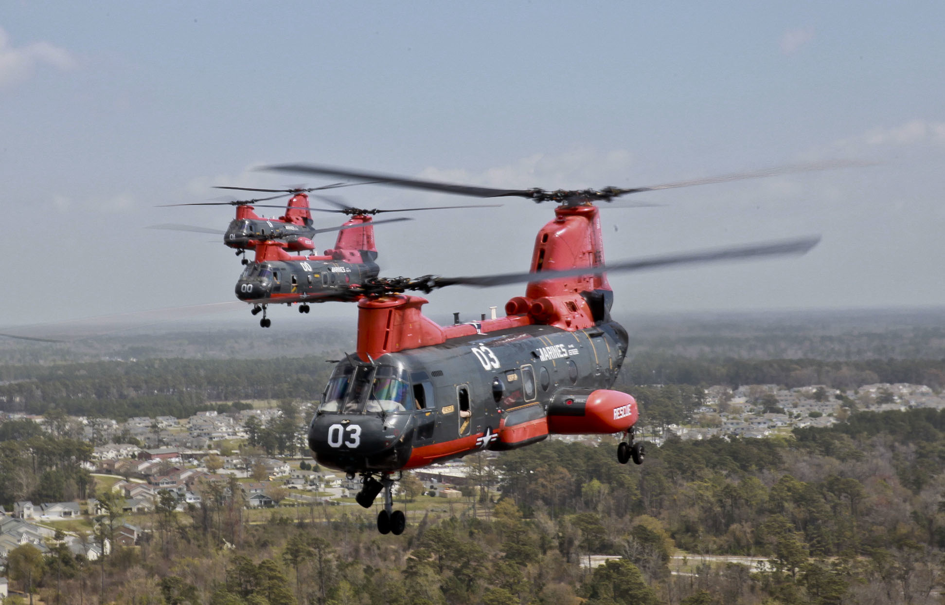 U.S. Marines with Marine Transport Squadron 1 (VMR-1) flies the HH-46E Sea Knight helicopters over parts of Eastern North Carolina, April 3, 2015. VMR-1 took four aircraft for a flight over Morehead City, Jacksonville, and Atlantic Beach as a training exercise as a whole unit. (U.S. Marine Corps photo by Lance Cpl. Colin Broadstone/Released)